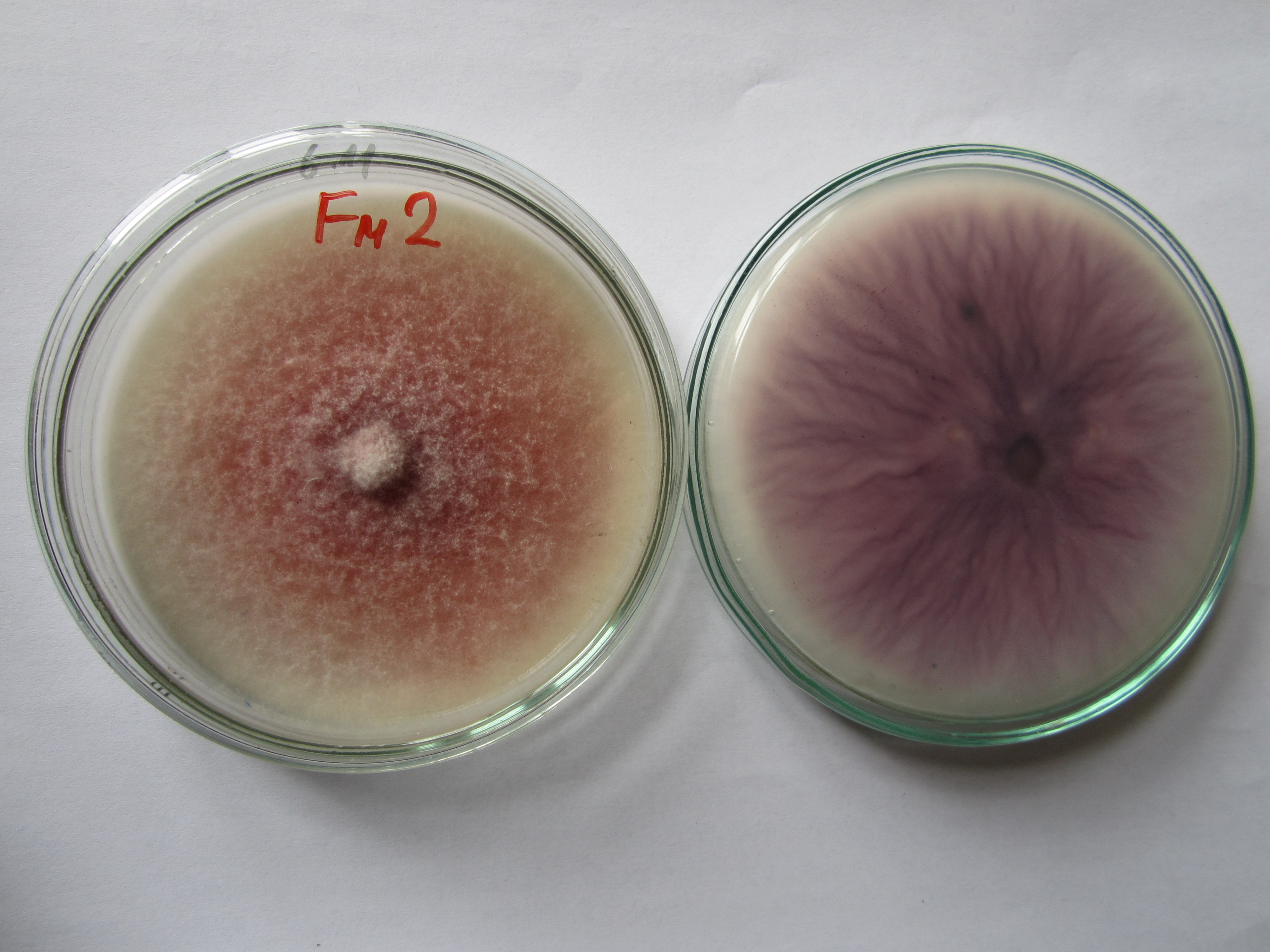 Culture soil fungus Fusarium sp. with purple color, cultivated on nutrient substrate KDA (potato dextrose agar). The isolate is obtained from Orobanche ramose (plague) parasite on tobacco, which was contaminated by this fungus. Culture soil fungus Fusarium sp. with purple color